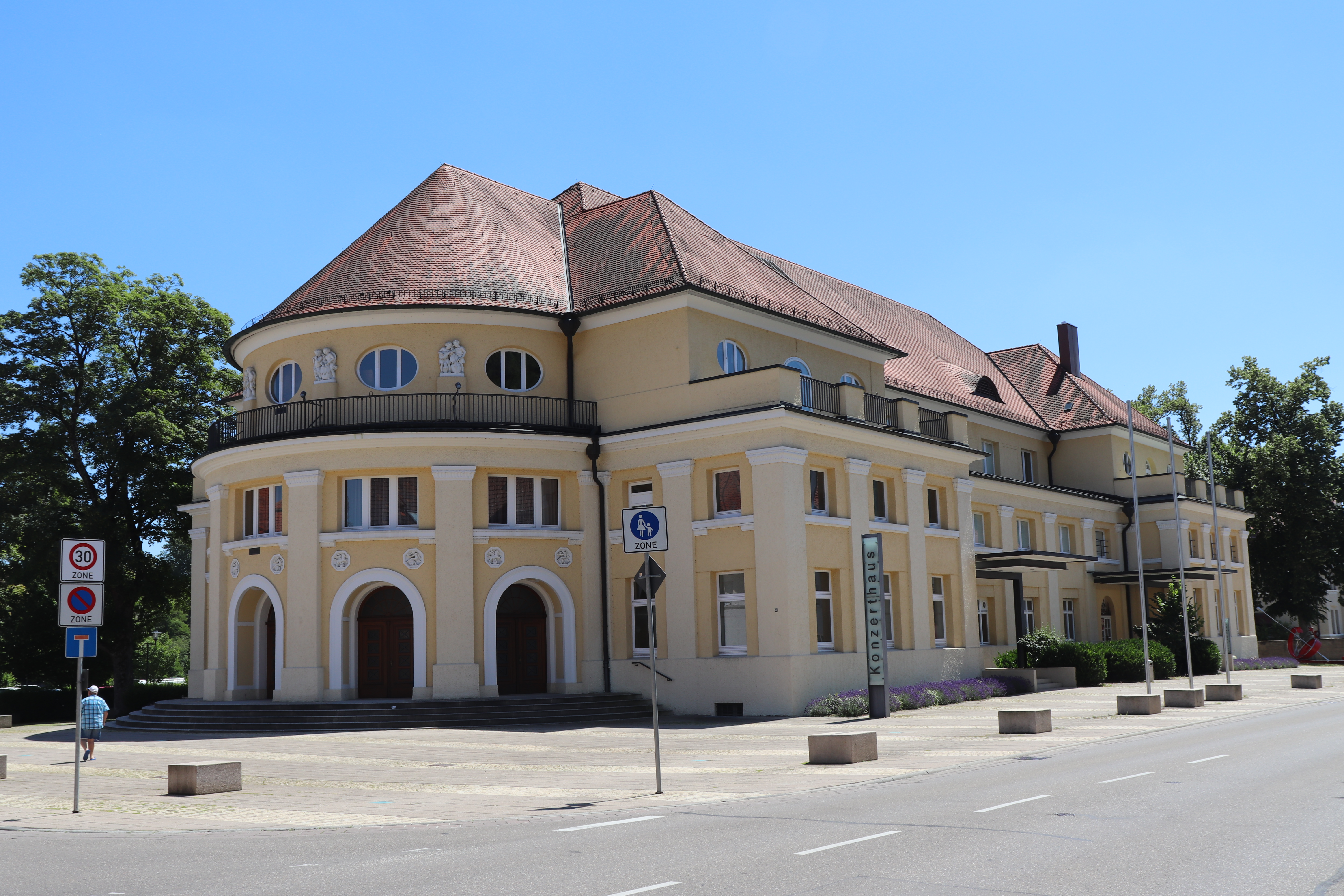 Heidenheim an der Brenz - concert house